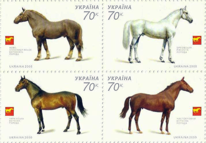 Stamps of Ukraine, Novoaleksandrovsky heavy draft, Orlov Trotter, Ukrainian Riding Horse, Thoroughbred